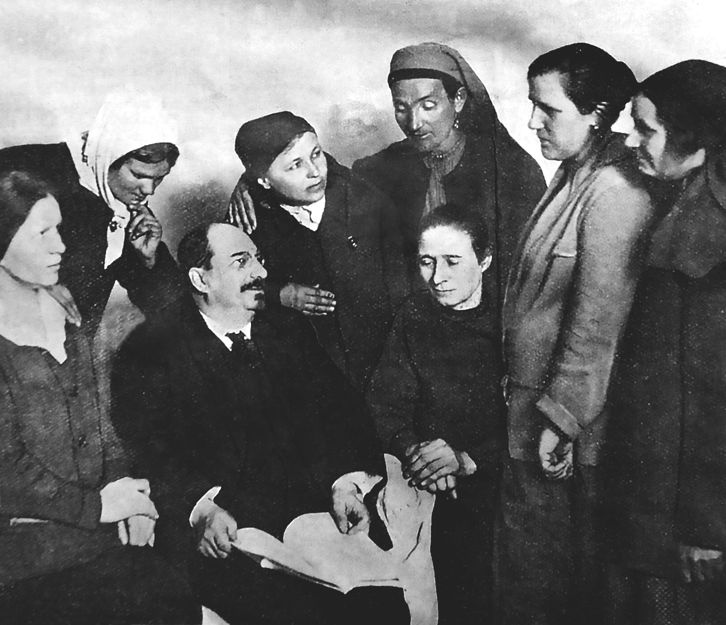 Anatoly Lunacharsky, People's Commissars for Education on 13 Congress of Soviets of the RSFSR. The Congress took place from 10 to 16 Apr 1927.